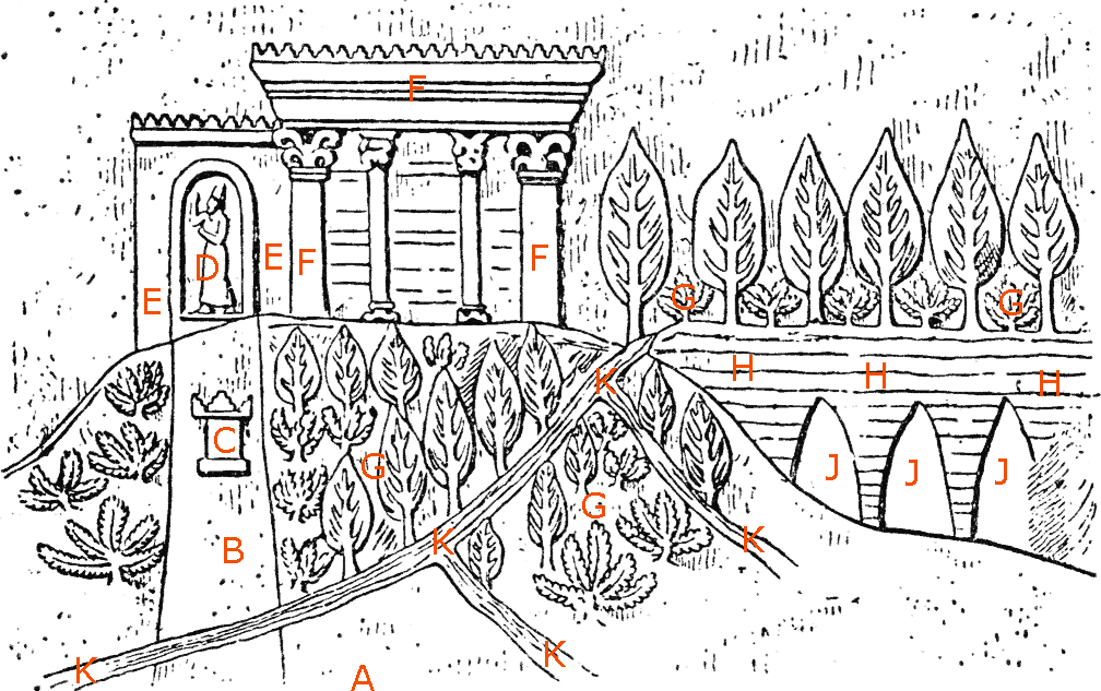 Hanging Gardens of Babylon